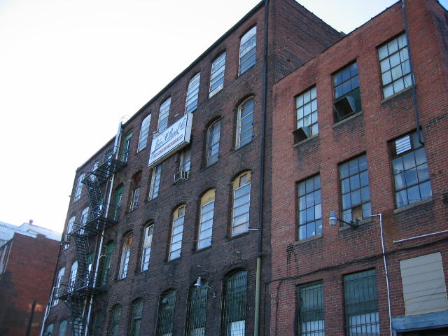 This is the back of the John H. Daniel building in downtown Knoxville. I took this picture. It is not copyrighted and anyone can use it.